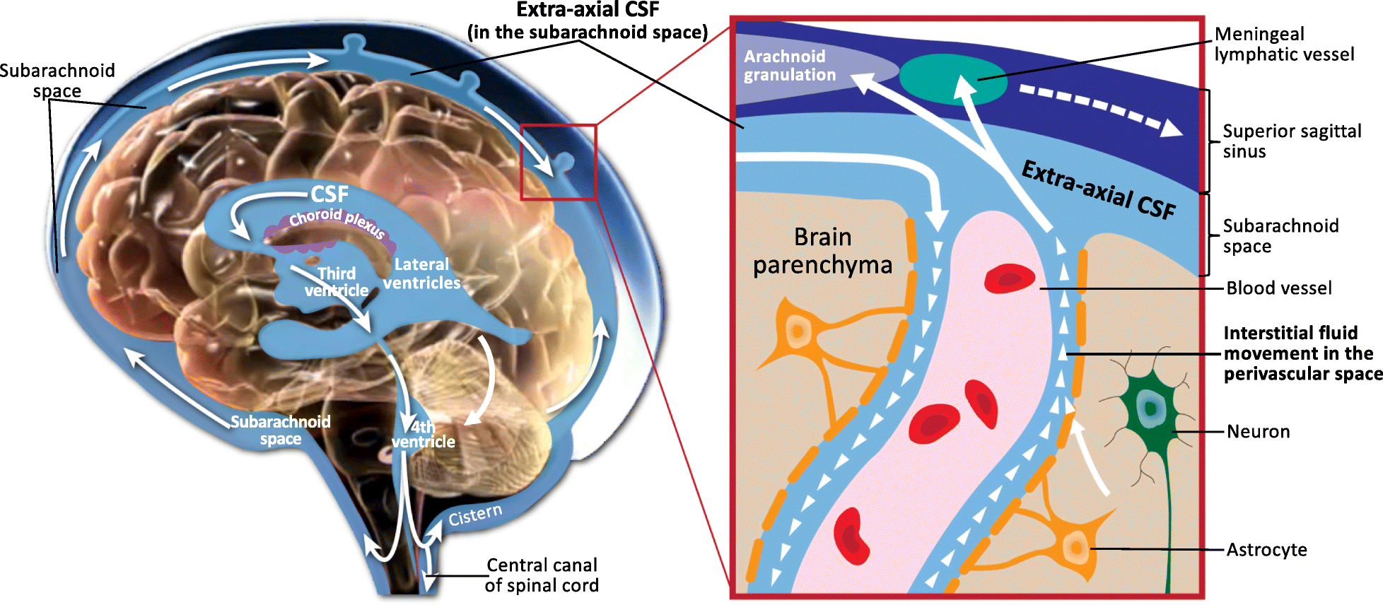 Schematic of CSF circulation, CSF outflow systems, and the anatomy of various CSF compartments. CSF is produced by the choroid plexus in the ventricles, where it delivers growth factors to progenitor cells that originate on the surface of the ventricles, and then proliferate into neurons and migrate to form the cerebral cortex. CSF circulates from the lateral, third and fourth ventricles to the cisterns of the brain, and then flows into the subarachnoid space, where it envelops the cortical convexities of the brain (EA-CSF). Inset box: From the subarachnoid space, there is retrograde influx of CSF into the parenchyma, where CSF and interstitial fluid interact in the perivascular space, alongside blood vessels that course throughout the brain. Astrocytes lining the perivascular space aid in transporting fluid that removes inflammatory waste proteins (e.g., Aβ), which are continually secreted by neurons as byproducts of neuronal activity and would otherwise build up in the brain. Finally, fluid carrying these inflammatory waste products returns to the subarachnoid space (EA-CSF) and drains into meningeal lymphatic vessels and arachnoid granulations.